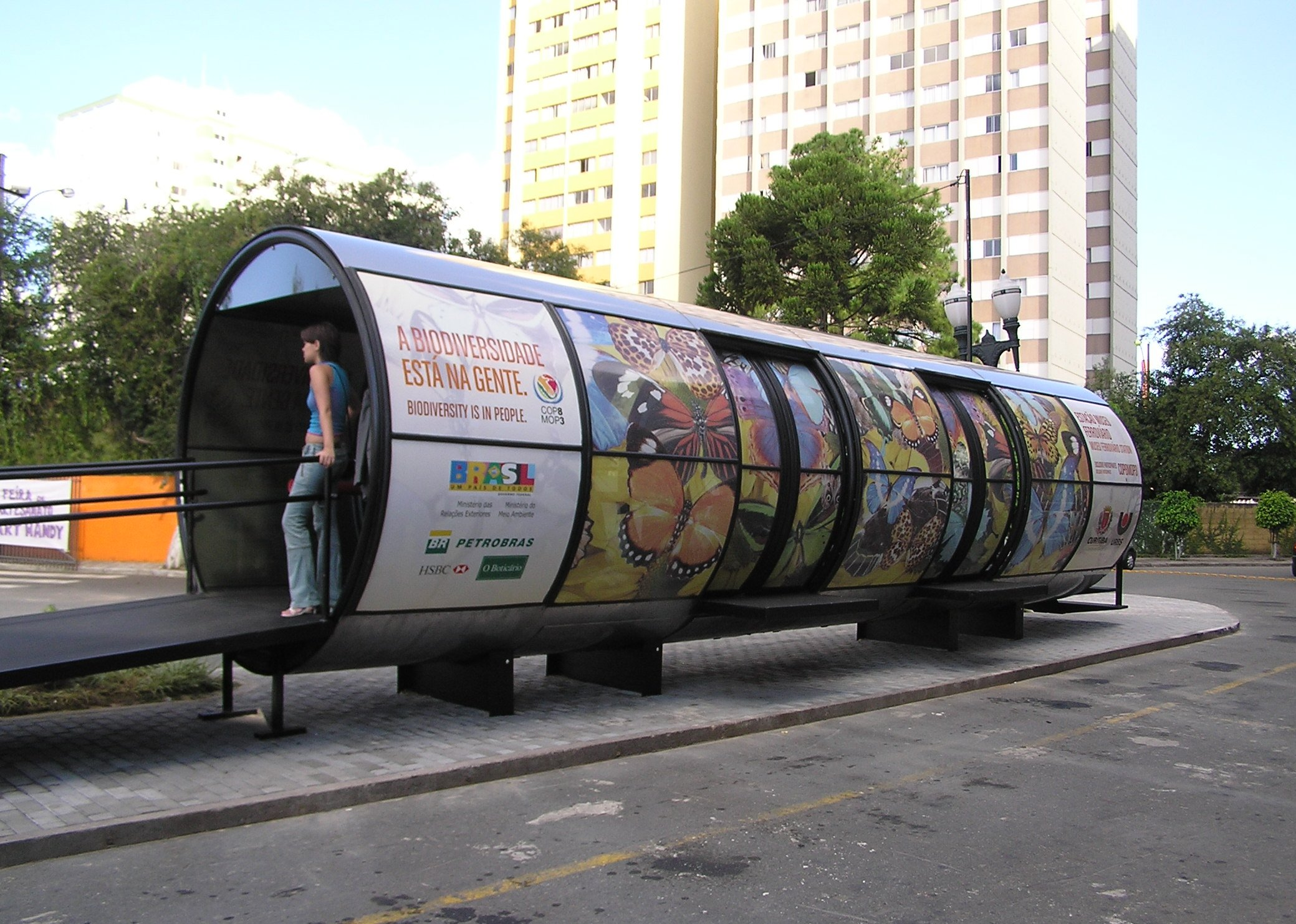 COP8MOP3: Bus stop